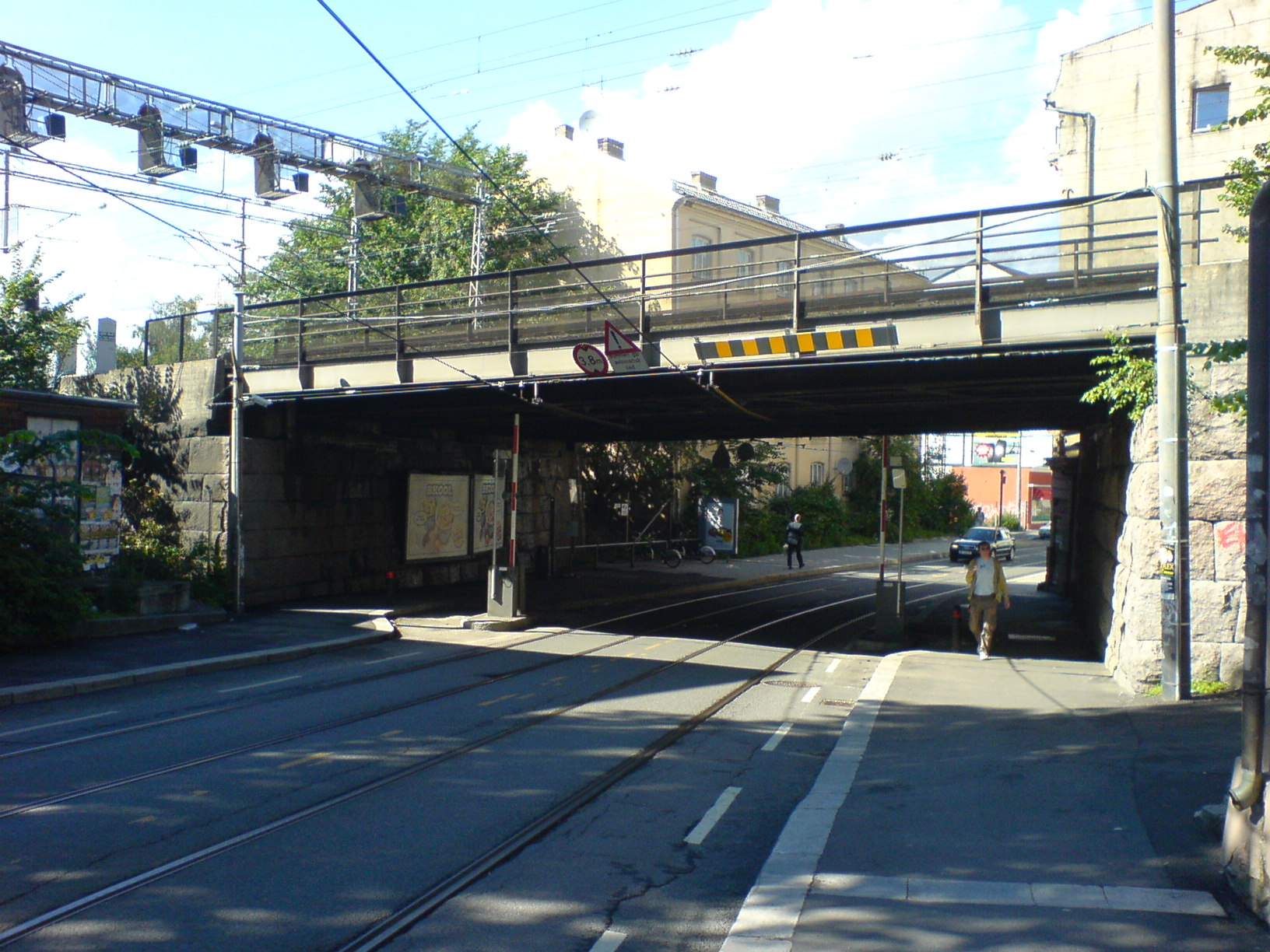 The street Oslo gate in Oslo